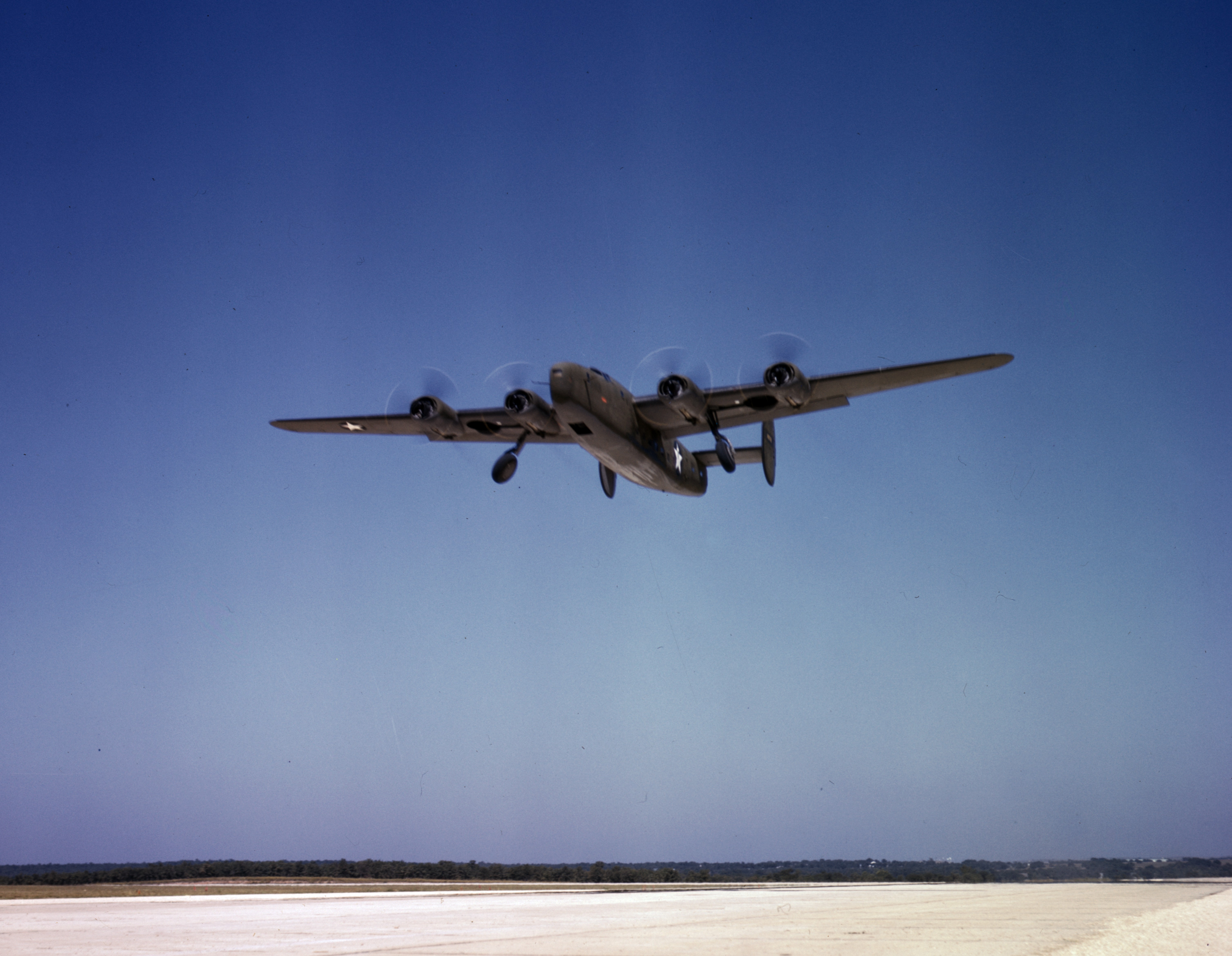 A Consolidated C-87 Liberator Express transport plane takes off on test flight, Consolidated Aircraft Corp., Fort Worth, Texas (USA).